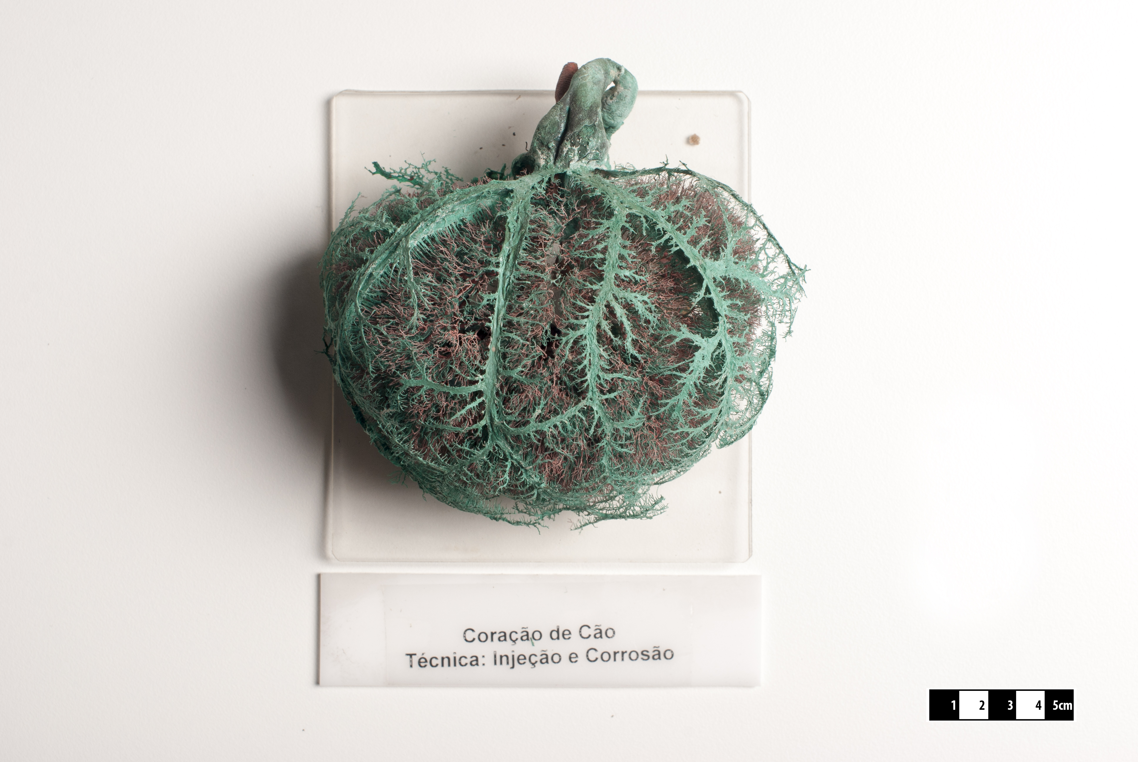 Dog heart. Canis lupus familiaris Technique of vinylite and corrosion. Allow the visualization of the vascular architecture of the body. Specimens on display at the Museum of Veterinary Anatomy, FMVZ USP. This file was published as the result of a partnership between the Museum of Veterinary Anatomy FMVZ USP, the RIDC NeuroMat and the Wikimedia Community User Group Brasil. This GLAM project is reported.